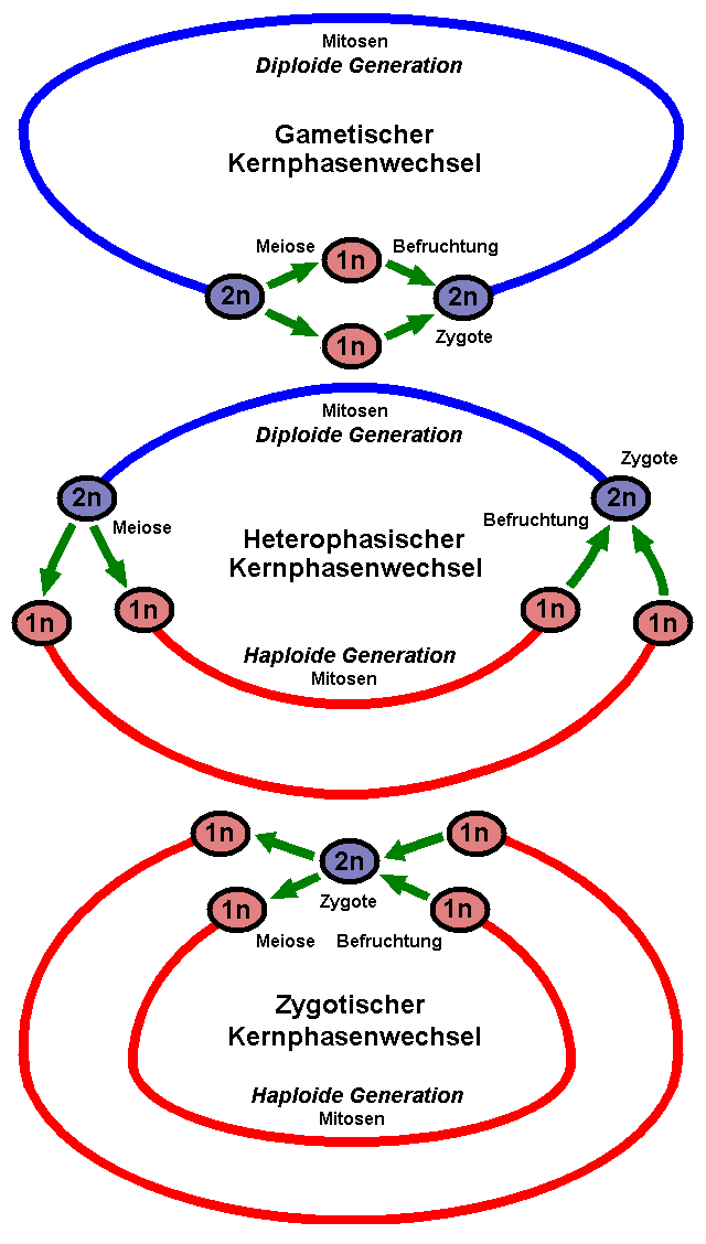 Different ways of periodic change between haploid and diploid generations within life cycle of an organism